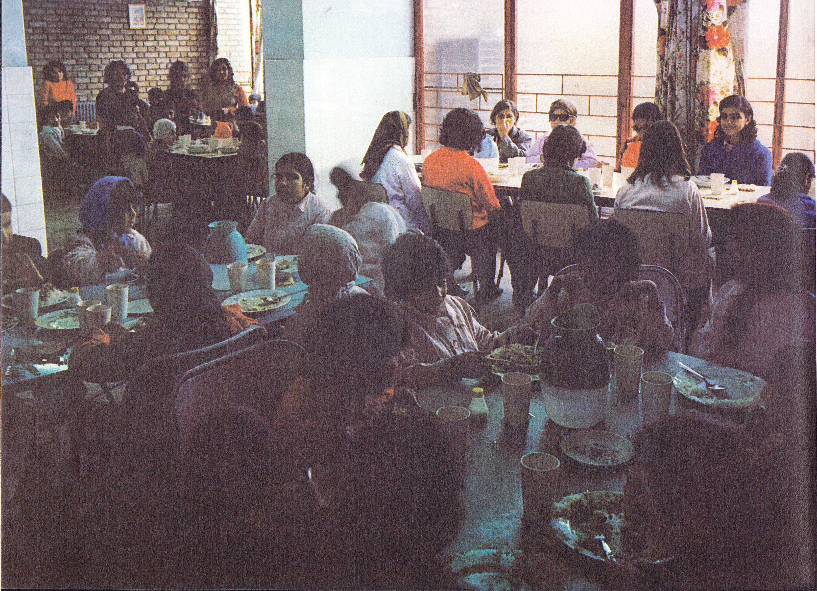 Dining room of amuzeshgah nabinayan (Blindenschule), Tehran, Iran